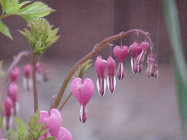 Species: Dicentra spectabilis Family: Fumariaceae Image No. 2